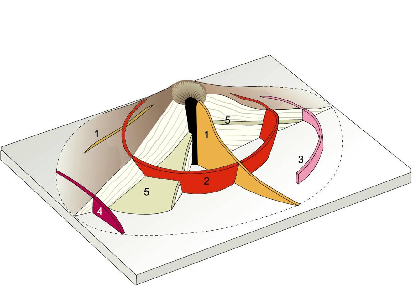 Types of dikes within a volcanic edifice: * 1. radial dikes 2. cone sheet 3. ring dikes 4. peripheral dikes 5. sills (geology)